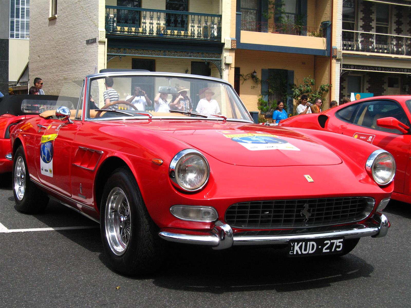 Ferrari 257 GTS - front right view 2007 Grand Prix Festival Celebrating Ferrari’s 60th Anniversary. Argyle Place, Carlton, Melbourne, Australia. Photo taken by Luke van Grieken on 3 March 2007 using a Canon IXUS 750 camera. Additional supercar images available at